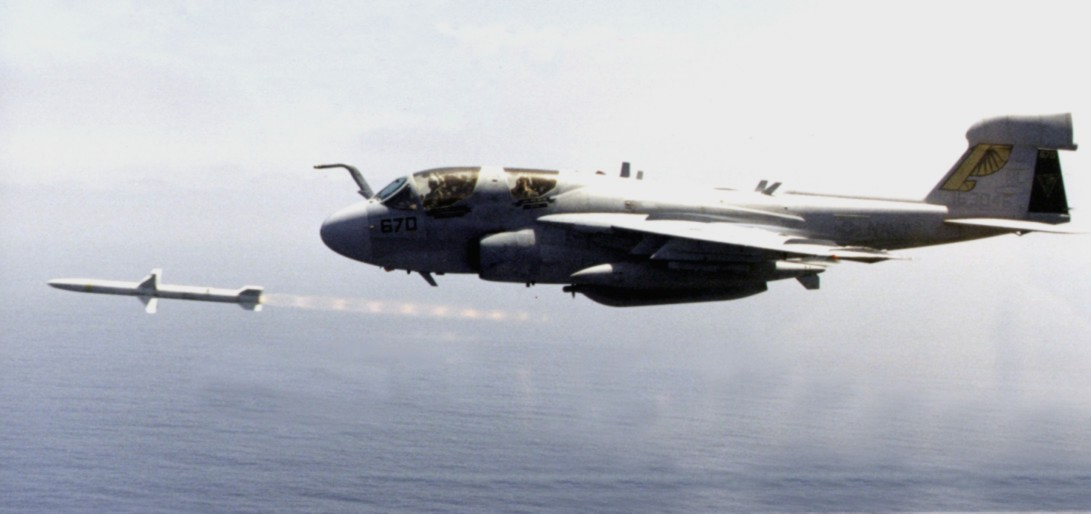 A U.S. Navy EA-6B Prowler (BuNo 163046) of electronic attack squadron VAQ-128 Fighting Phoenix launches an AGM-88 HARM anti-radiation missile at the Sea Range at Point Mugu, California, in June 1999.